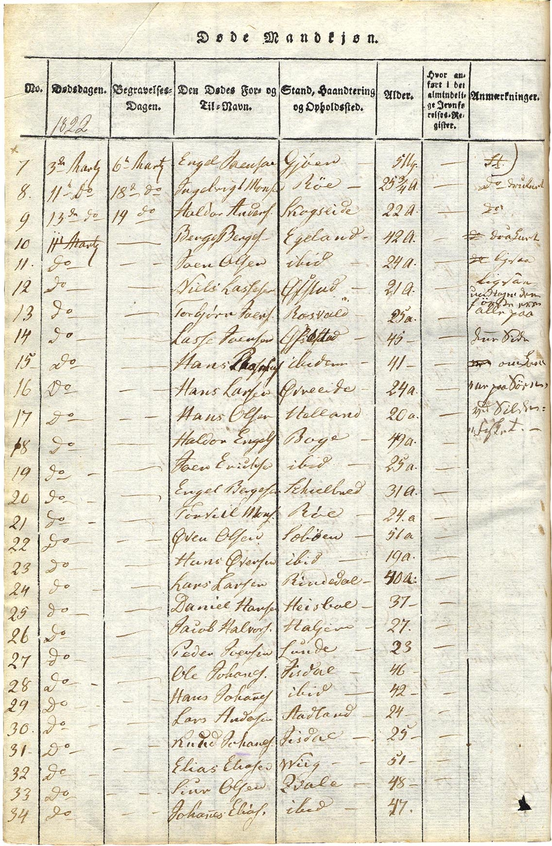 A page showing dead people from the church register at Os parish in Hordaland in Norway. 27 of 28 people on this page died at sea during a storm known as "Crazy Monday".